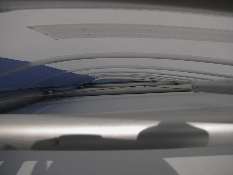 Skyranger - Inside view of the wing